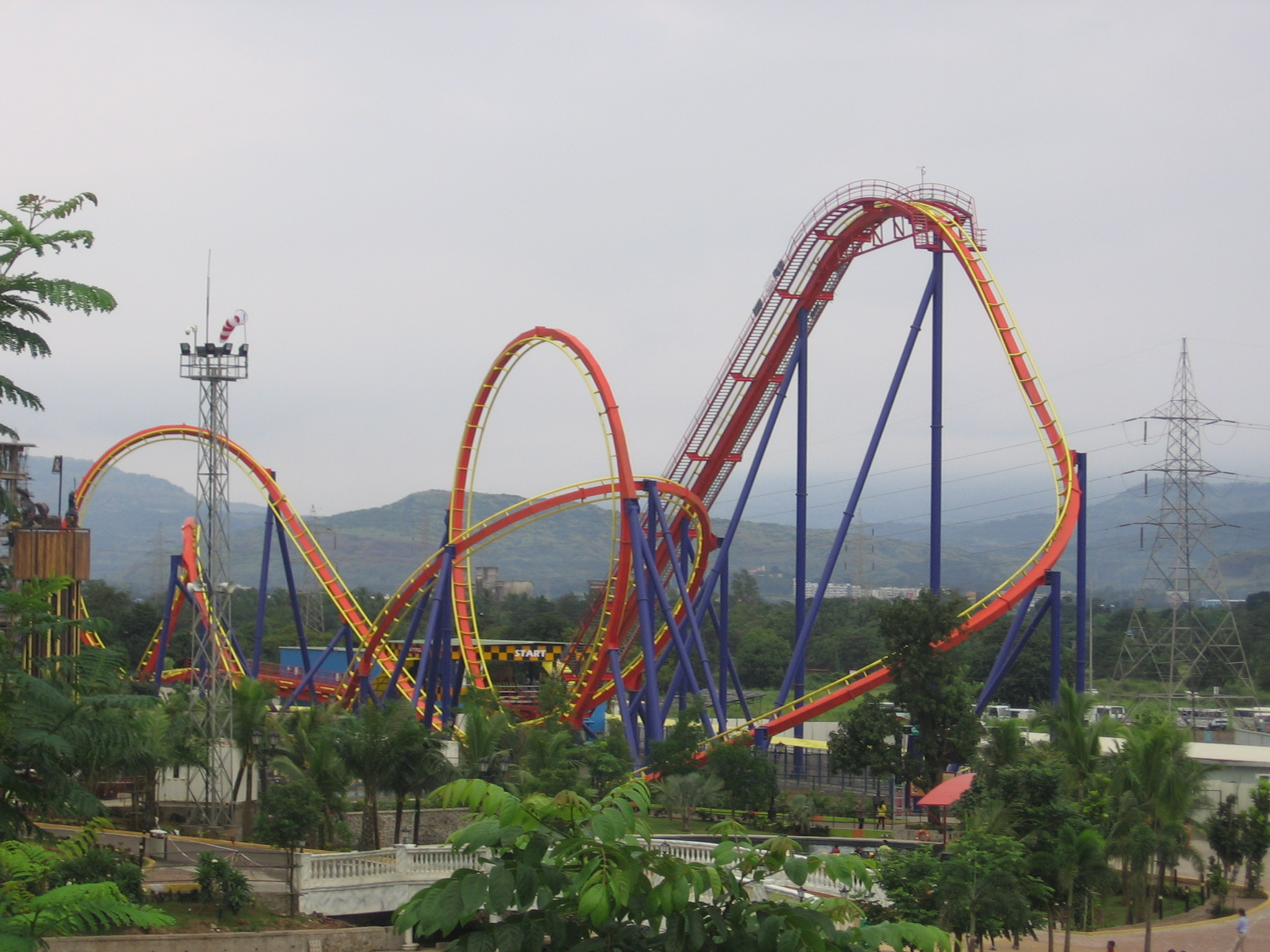 This is a photo of the Nitro roller coaster at Adlabs Imagica just before its opening in October 2013.